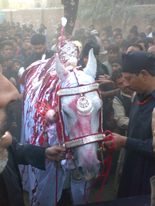 a festival of shia Muslim